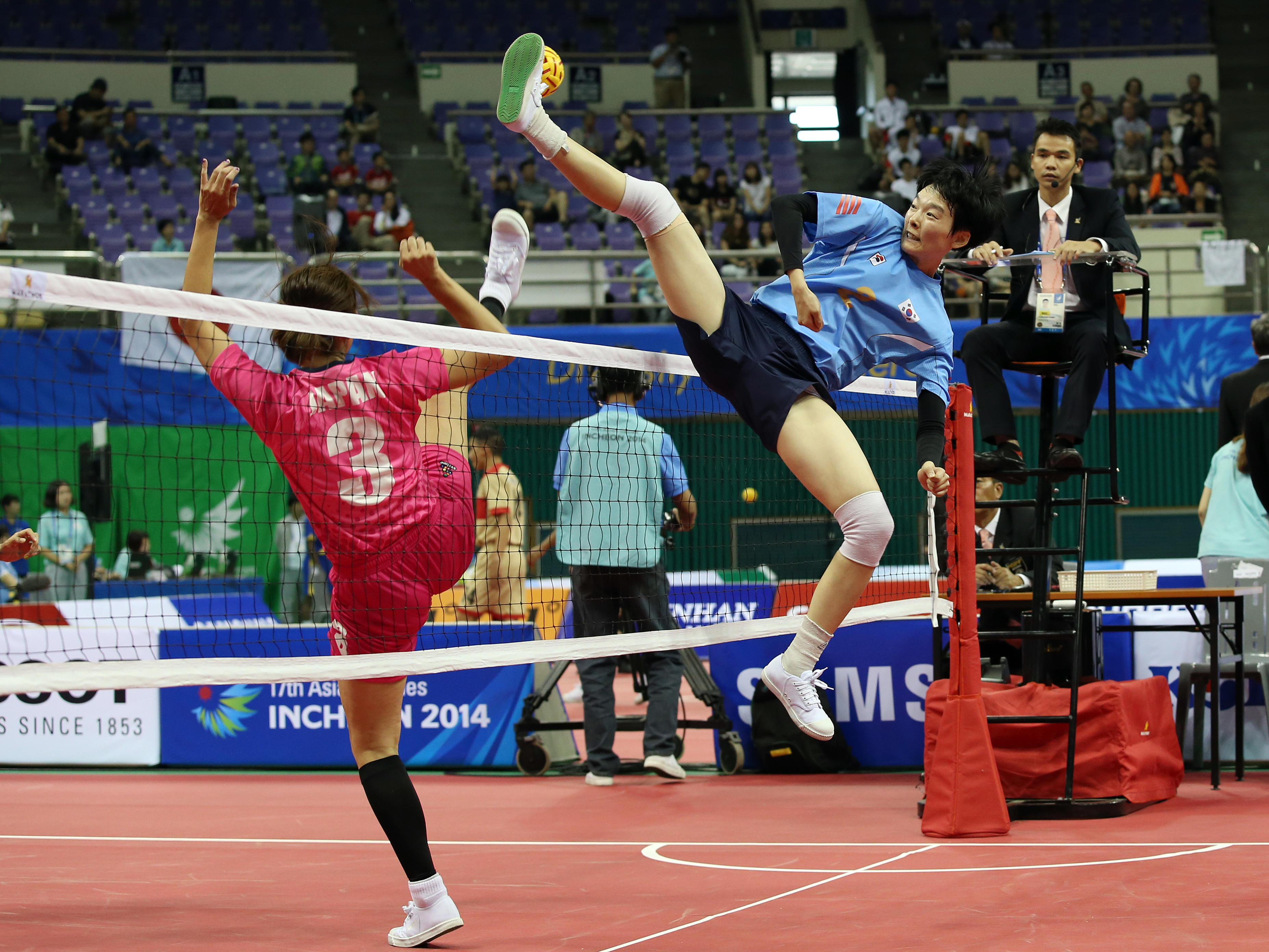 South Korea's Kim I-seul and Japan's Chiharu Yano during the Japan vs South Korea match in the preliminary round of the women's double sepak takraw event at the 2014 Asian Games in Incheon